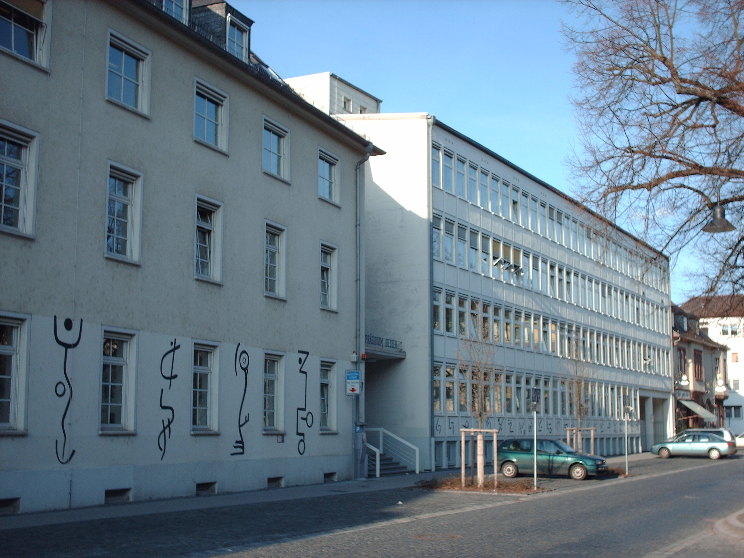 Regional Administrative Authority, Gießen, Germany check usage